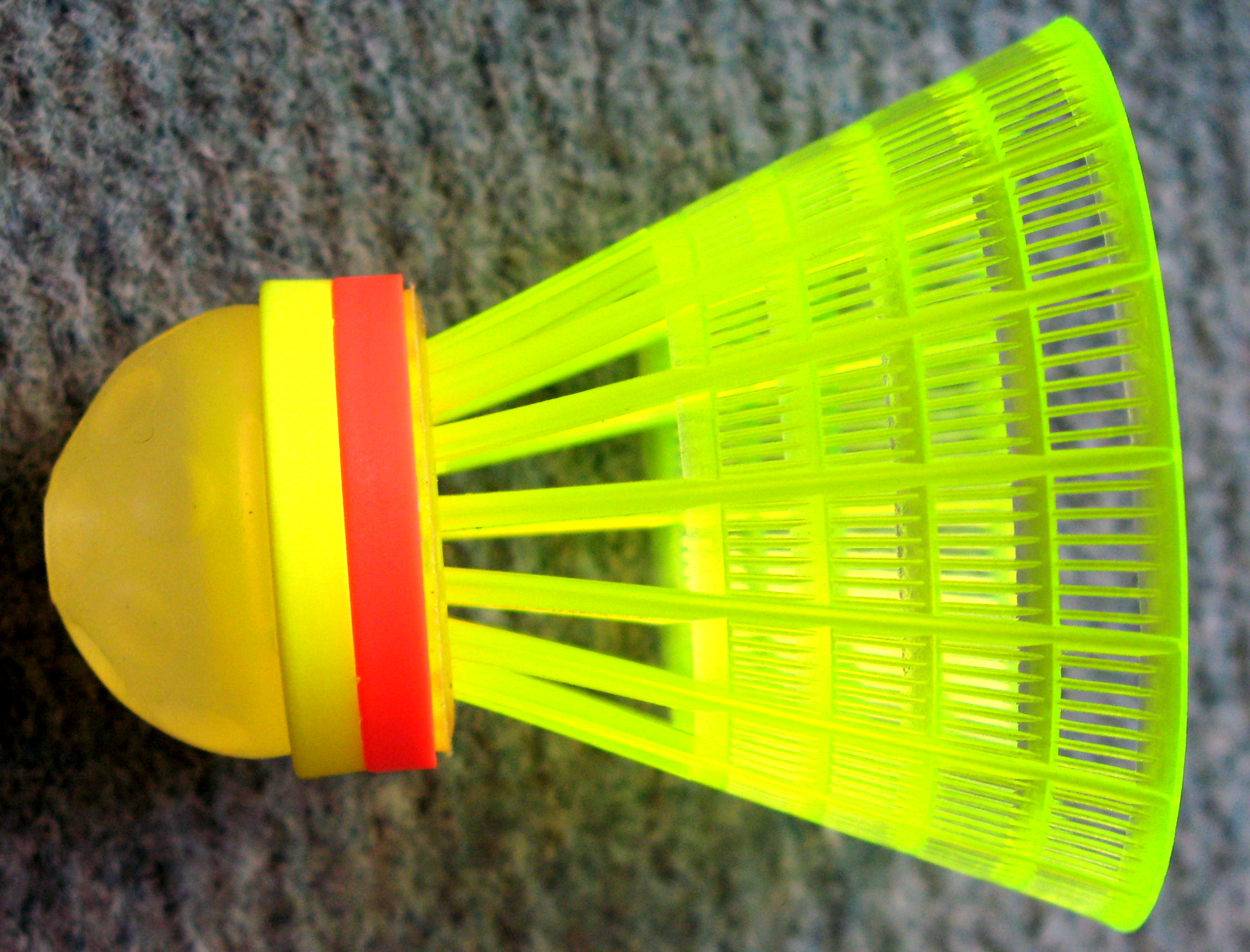 Night Speeder for the Speed Badminton